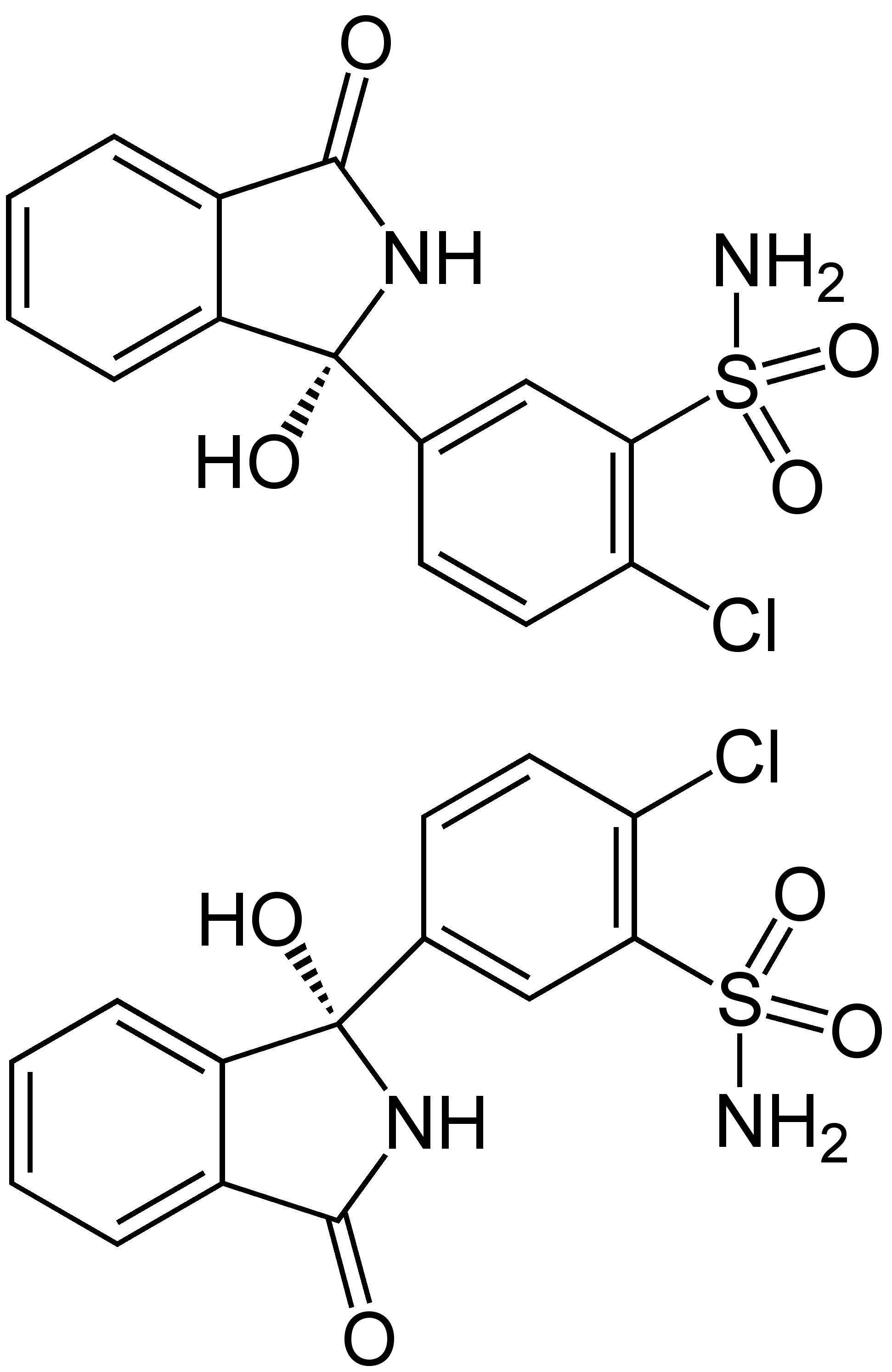 (±)-Chlortalidone_Enantiomers_Structural_Formulae